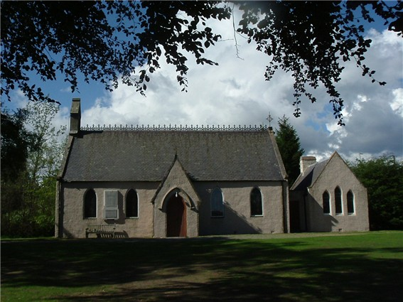 Finzean Church, Aberdeenshire, before recent restoration works